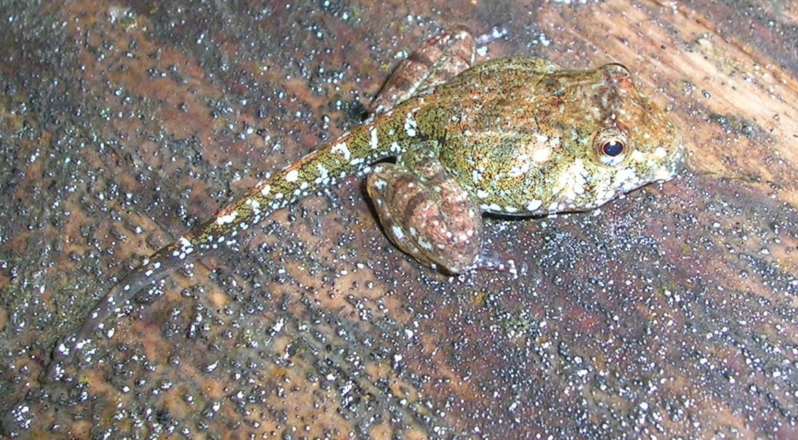 Tadpoles Indirana semipalmata seen on ground and capable of hopping, at Iruppu, Coorg, India